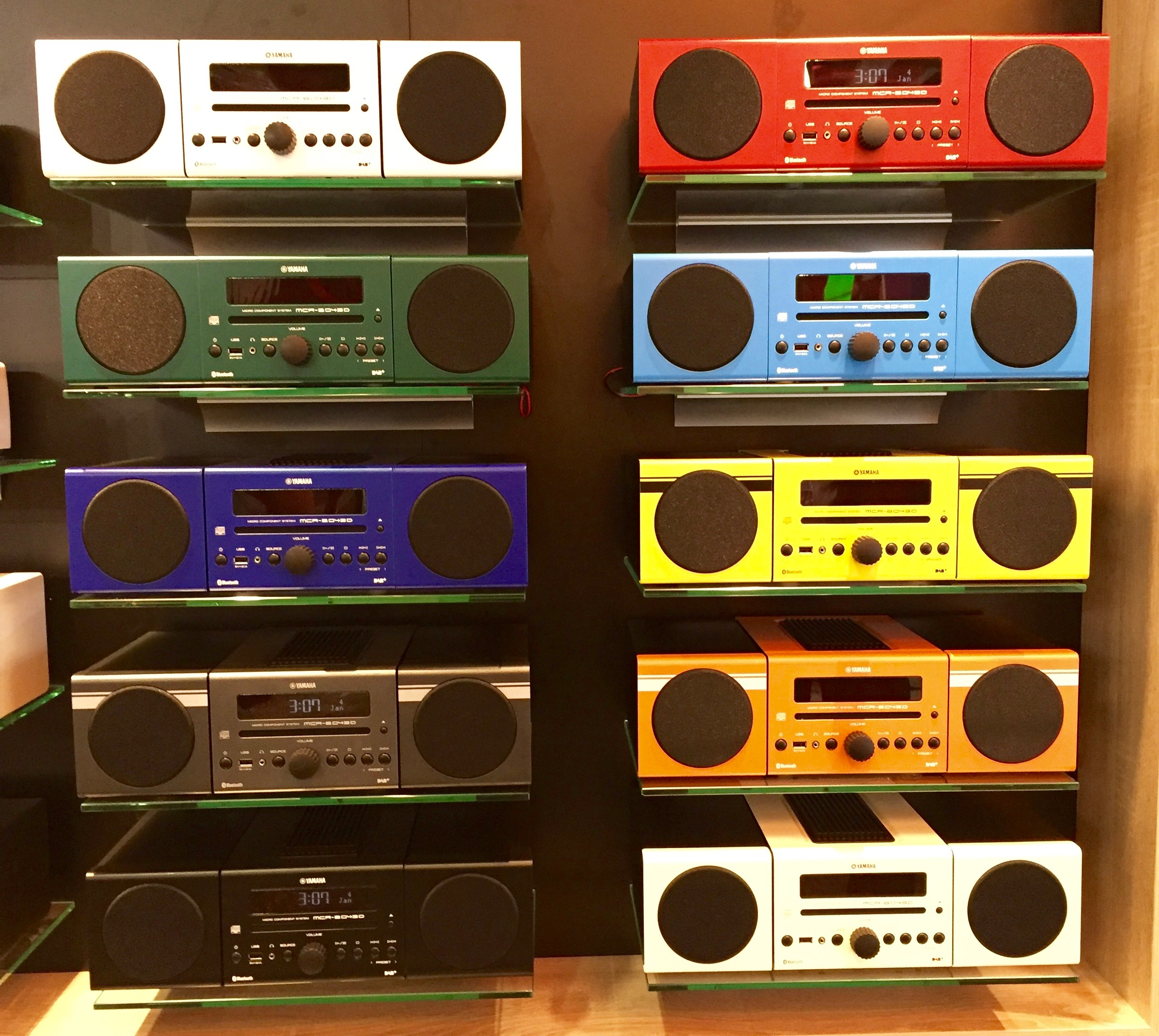 DAB radios from Yamaha